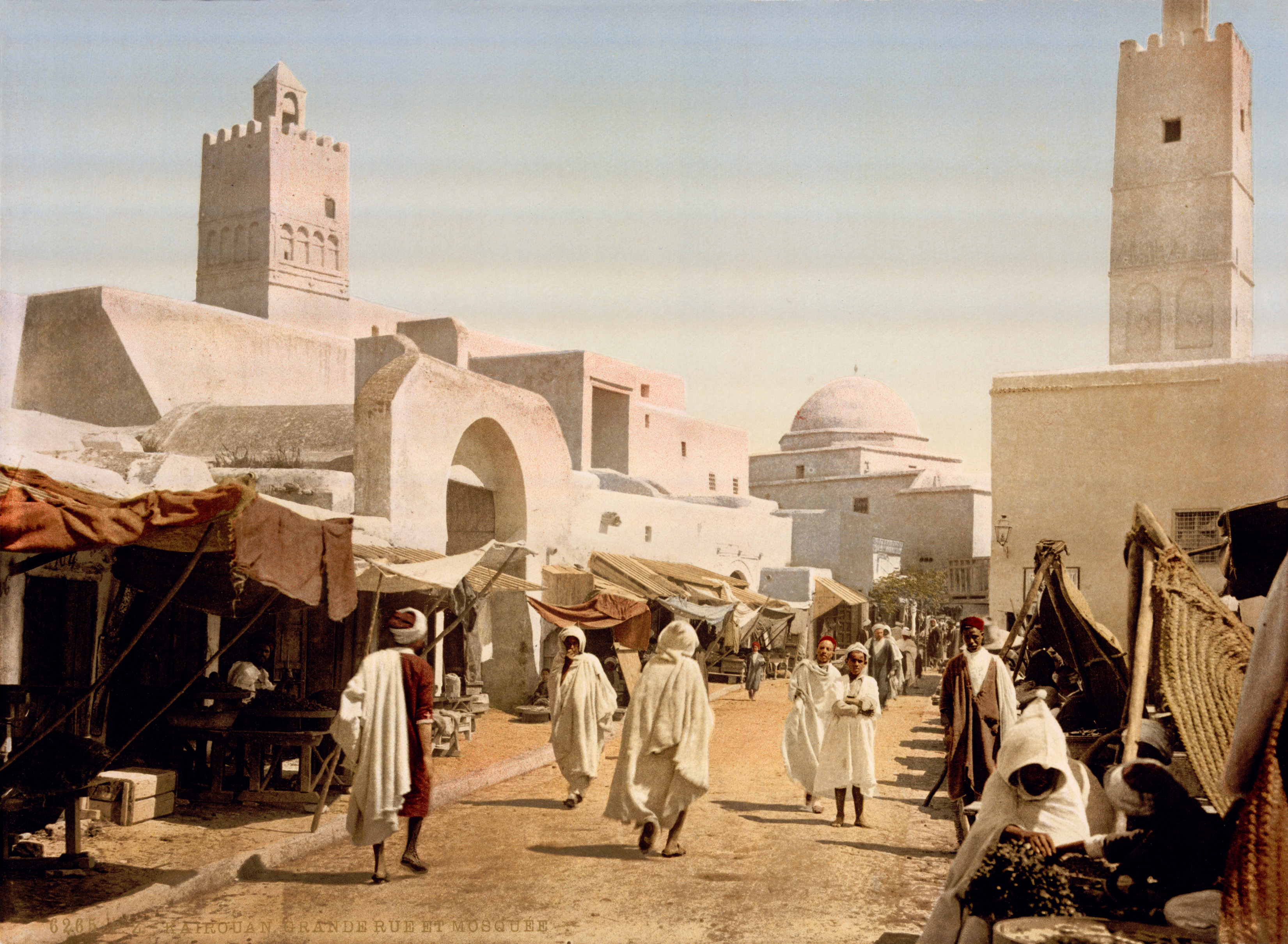 6265 P.Z. Kairouan, grande rue et mosque. Photochrom print by Photoglob Zürich, ca. 1899. From the Photochrom Print Collection at the U.S. Library of Congress. More photochromes of Tunisia | More photochrom prints [PD] This picture is in the public domain